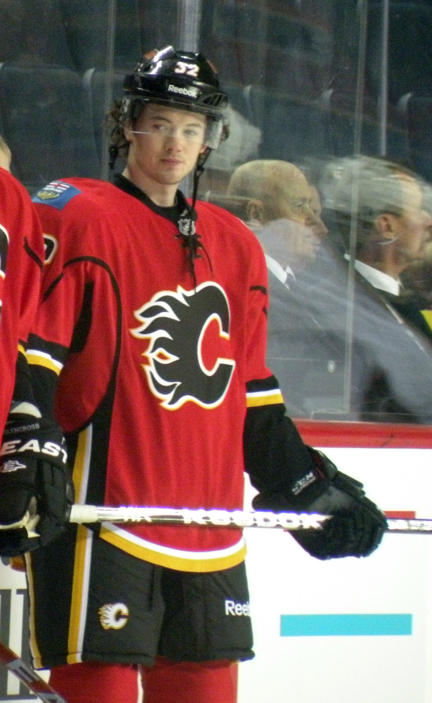 Calgary Flames forward Paul Byron during warmup prior to a National Hockey League game against the Minnesota Wild.